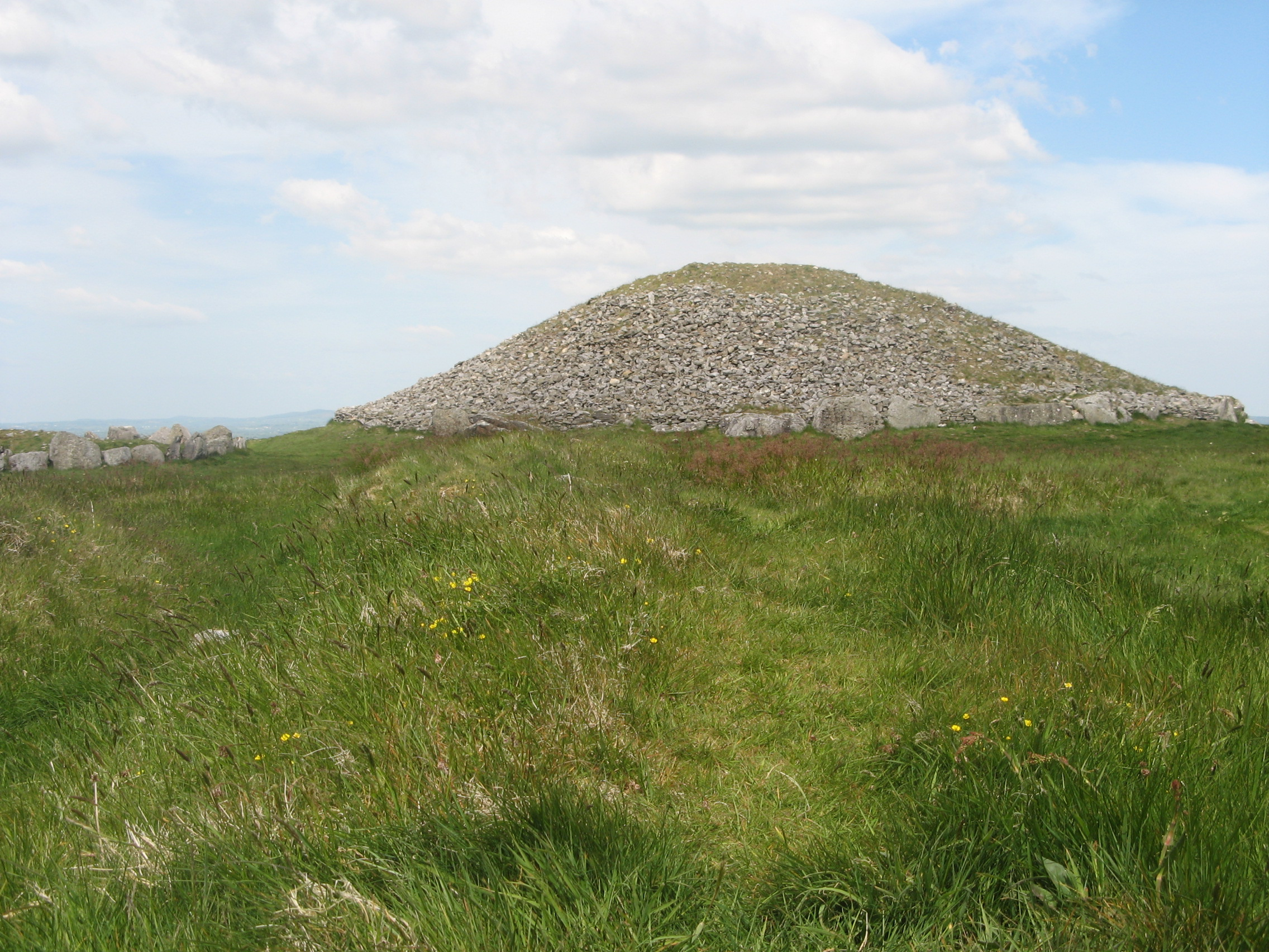 Cairn T at Loughcrew